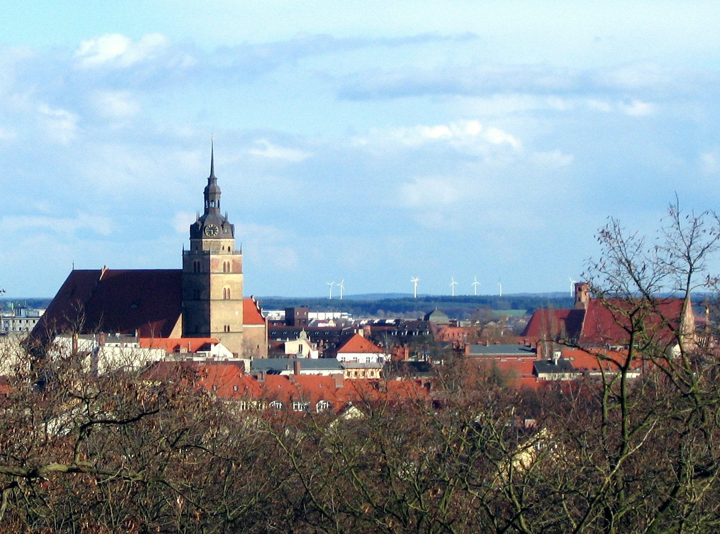 Description: view from the hill of Holy Mary (Marienberg) in Brandenburg an der Havel Source: Own work Date: 04 April 2006 Author: User:Martinum